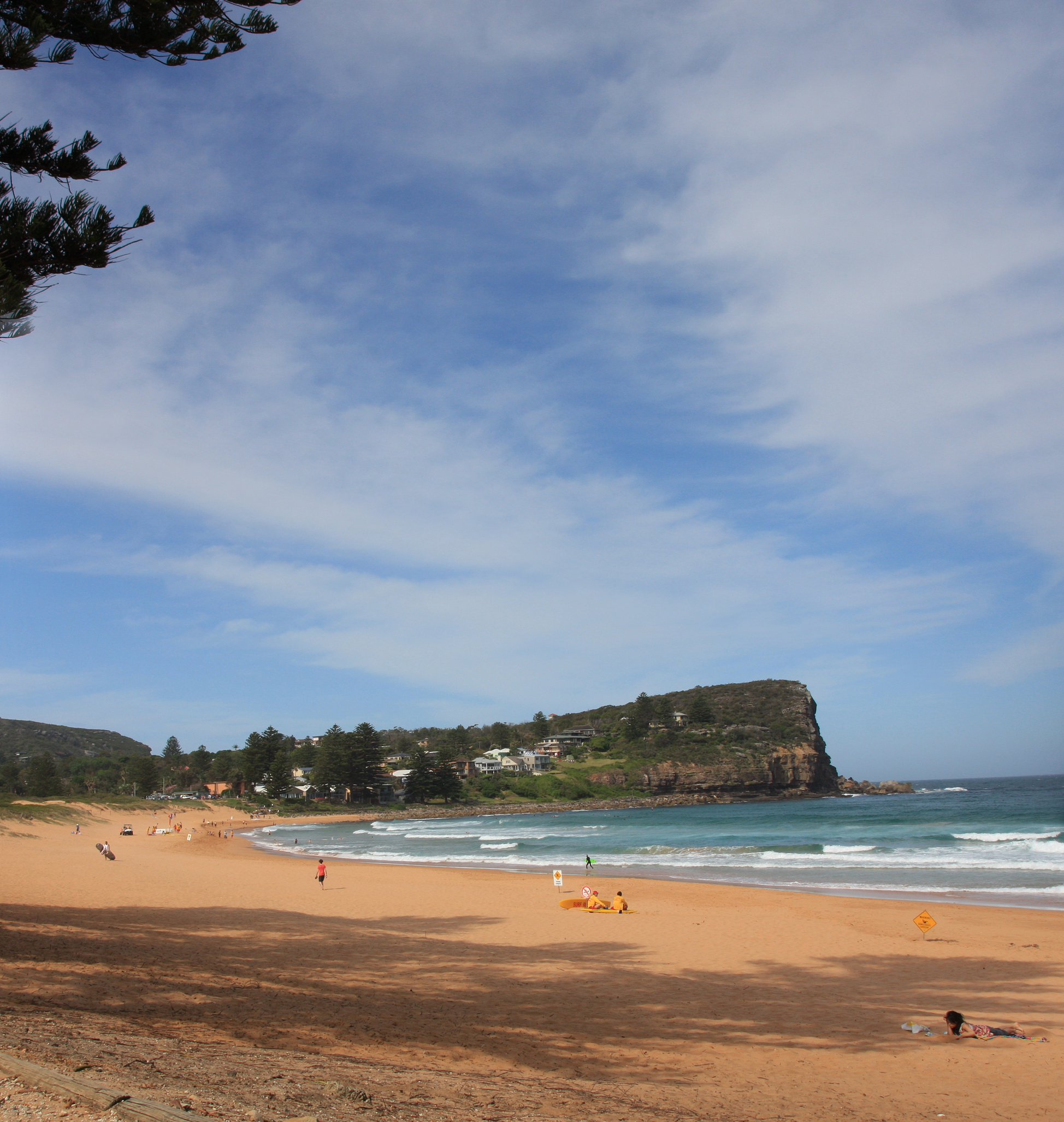 Avalon beach, Northern Beaches, Sydney